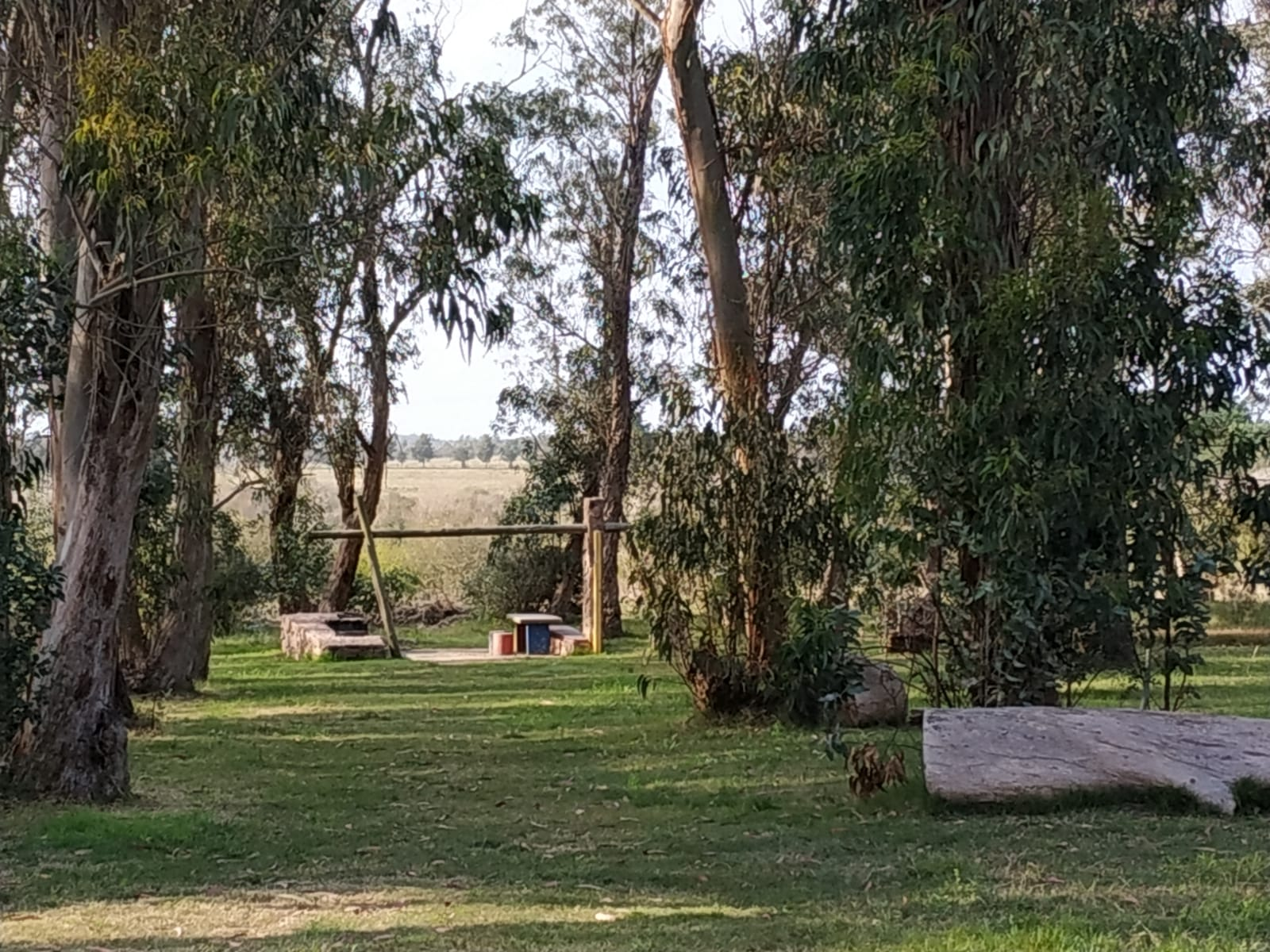 Wooded park with "parrilleros" (barbacue facilities).